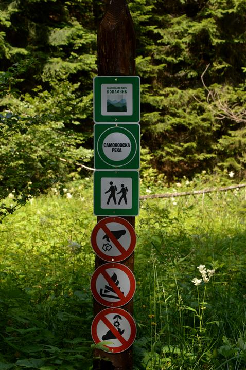 Raska Municipality - Kopaonik